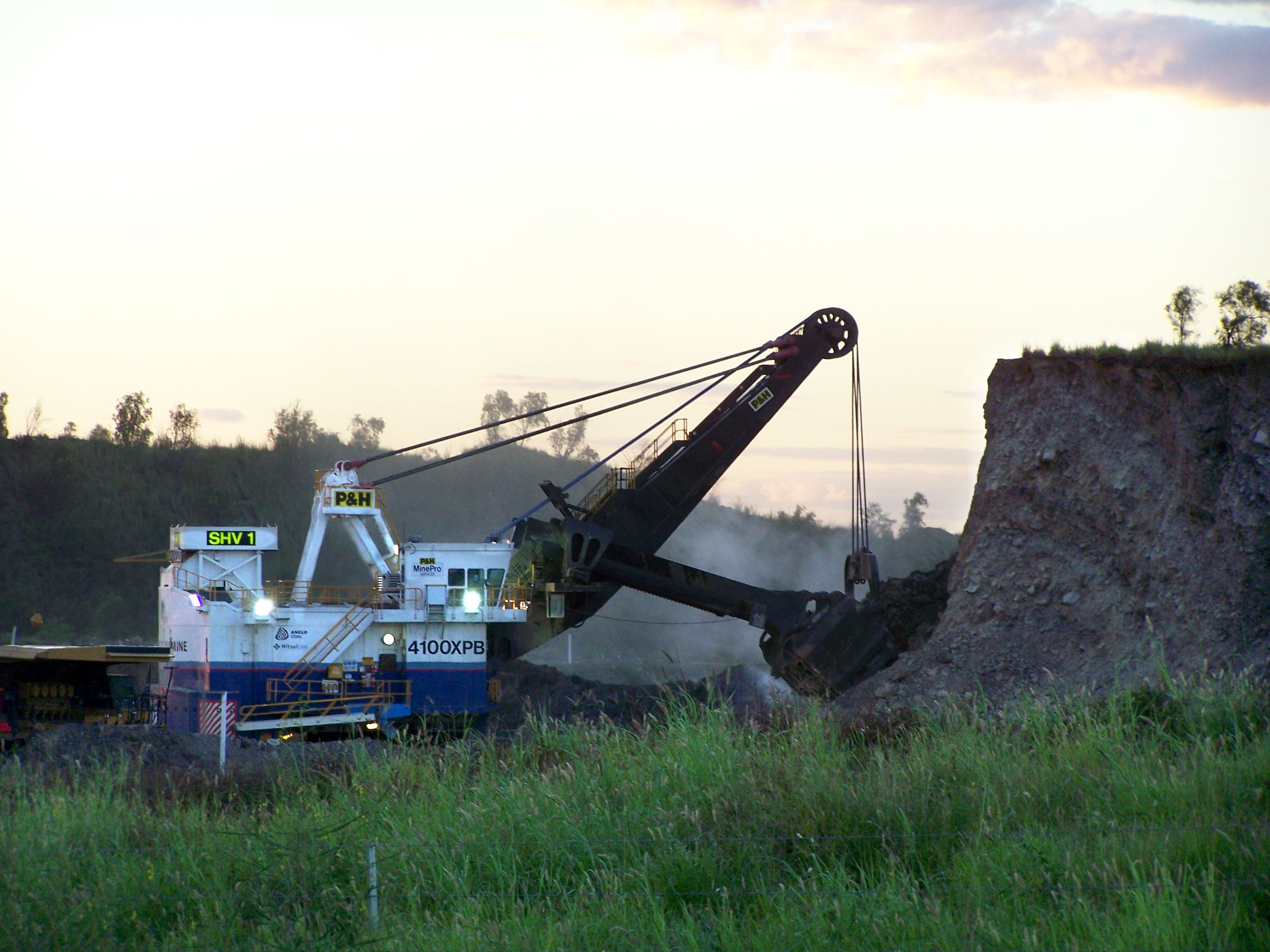 P&H 4100XPB shovel (electric) digging overburden at Dawson Mine, near Moura in Central Queensland, Australia - March 2008.